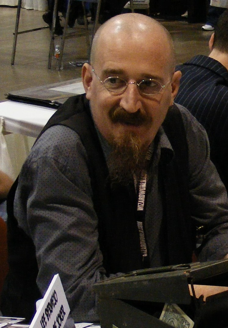 Brian Azzarello at Wizard World-Texas. 2008.